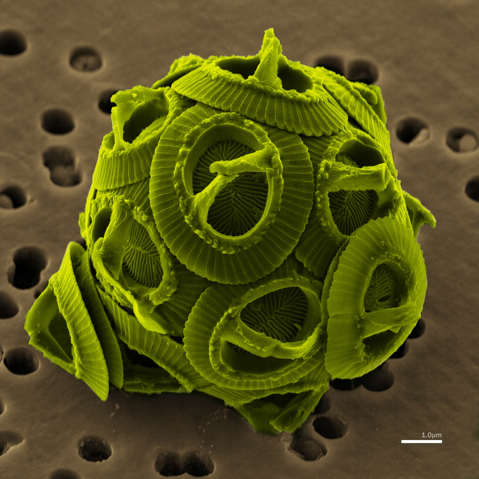 Gephyrocapsa oceanica Kamptner / from Mie Pref., Japan / SEM:JEOL JSM-6330F / scale bar = 1.0μm